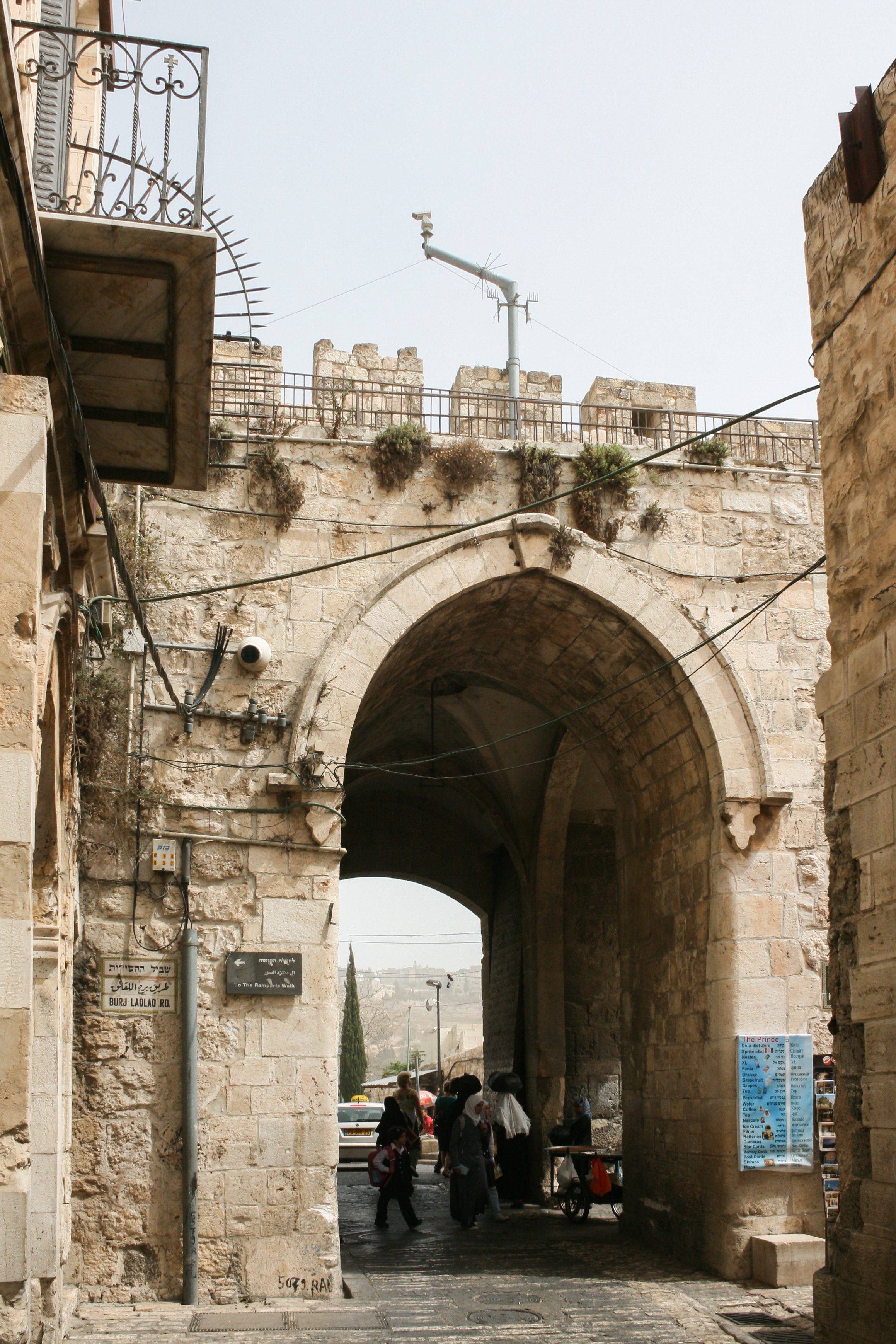 Lions' Gate of the Old City of Jerusalem seen from within the walls of the Old City.